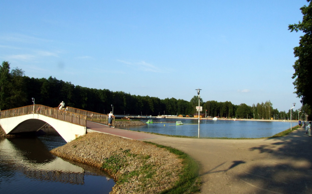 Recreation centre Gutwin in Ostrowiec Swietokrzyski